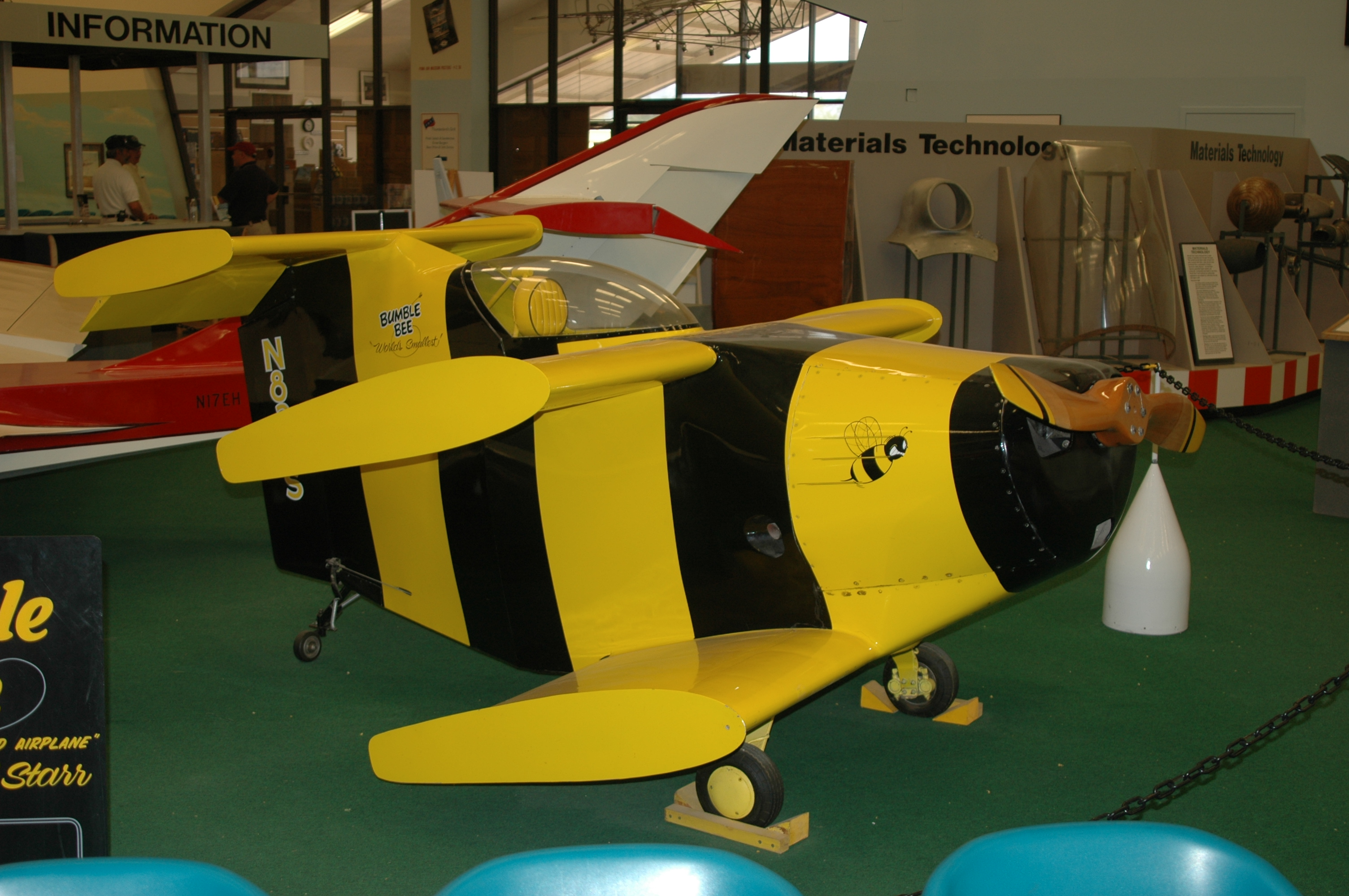 Pima Air Museum, Tucson, AZ